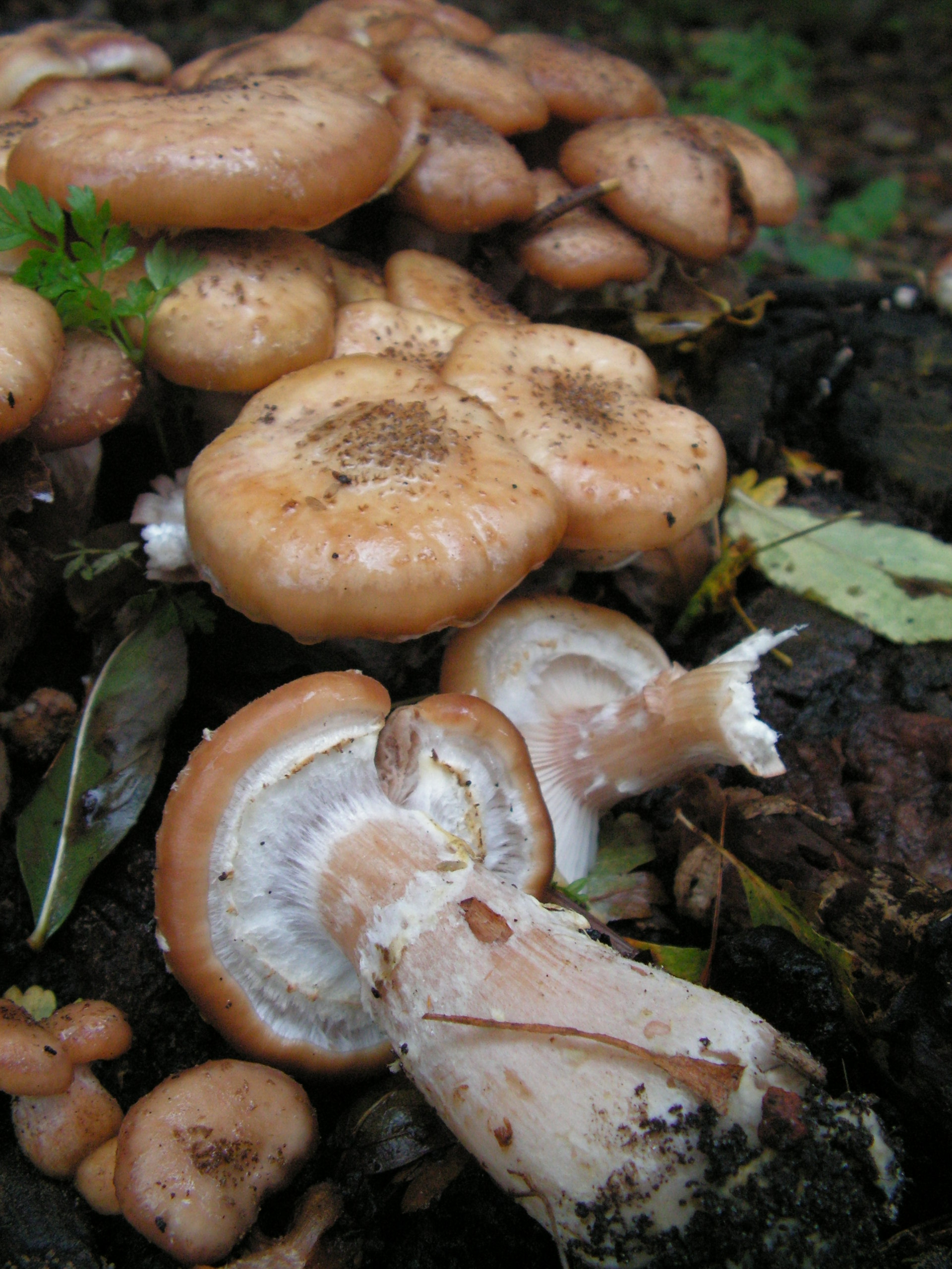 probably Armillaria borealis. Taken in the Netherlands on a treestub.